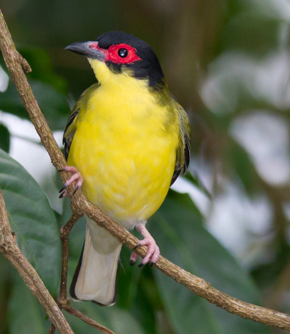 A adult male Australasian Figbird in Cairns, Queensland, Australia.